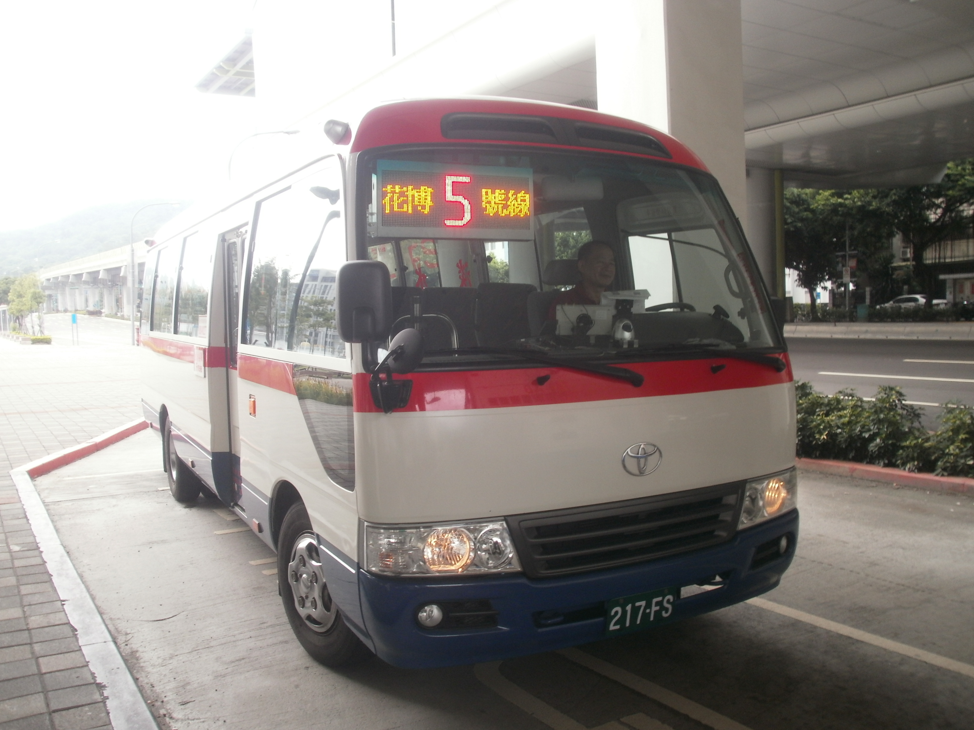 Expo Bus Line5